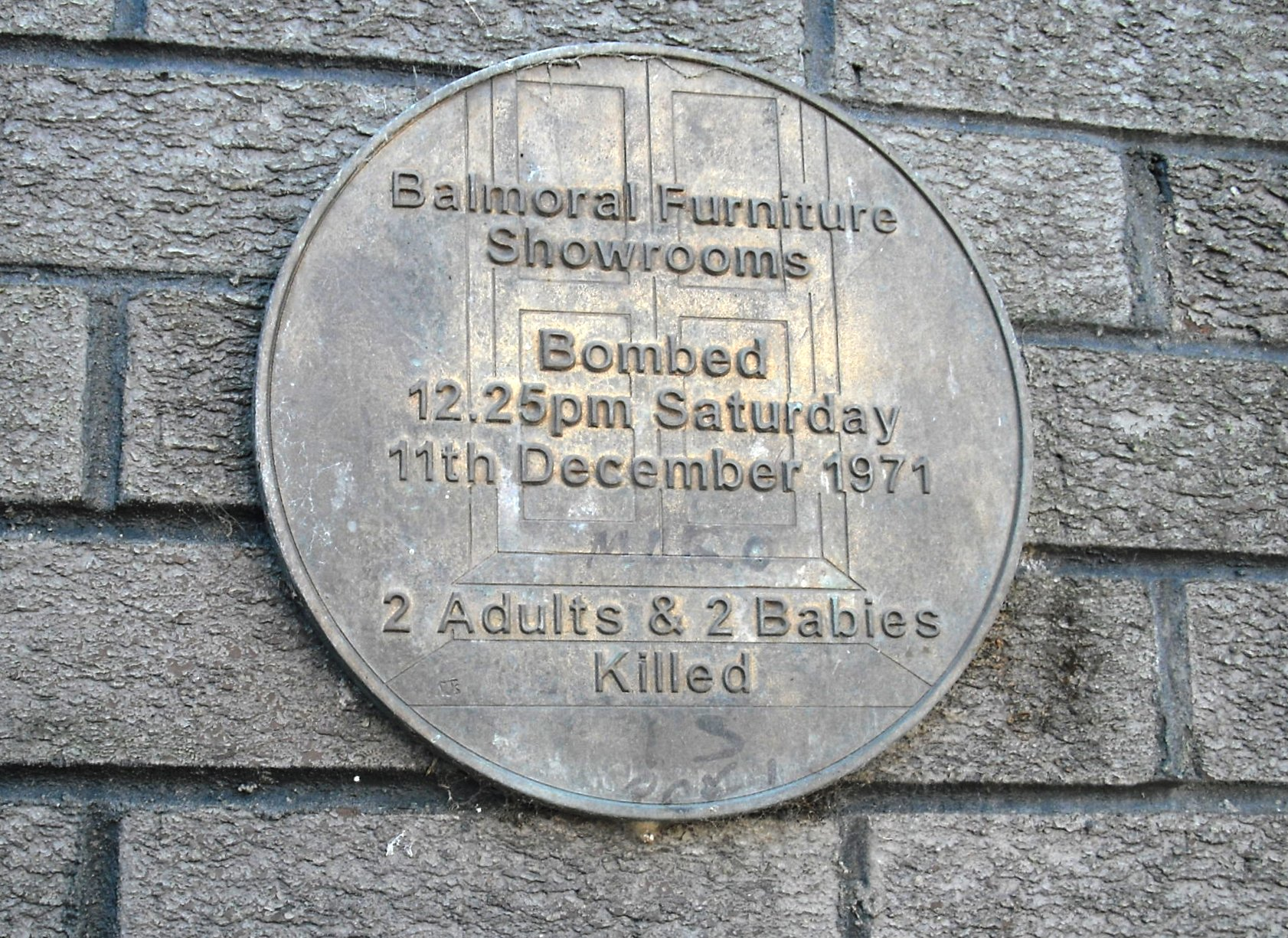 Plaque commemorating the 1971 Balmoral bombing